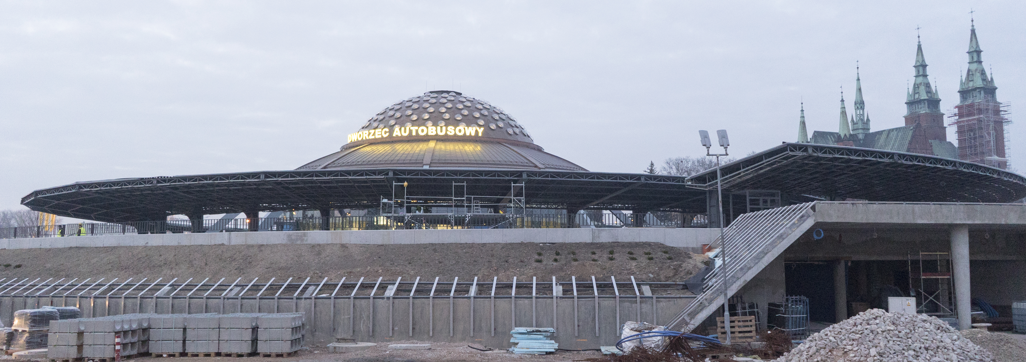 Kielce Bus Station in daylight in January 2020 during the renovation